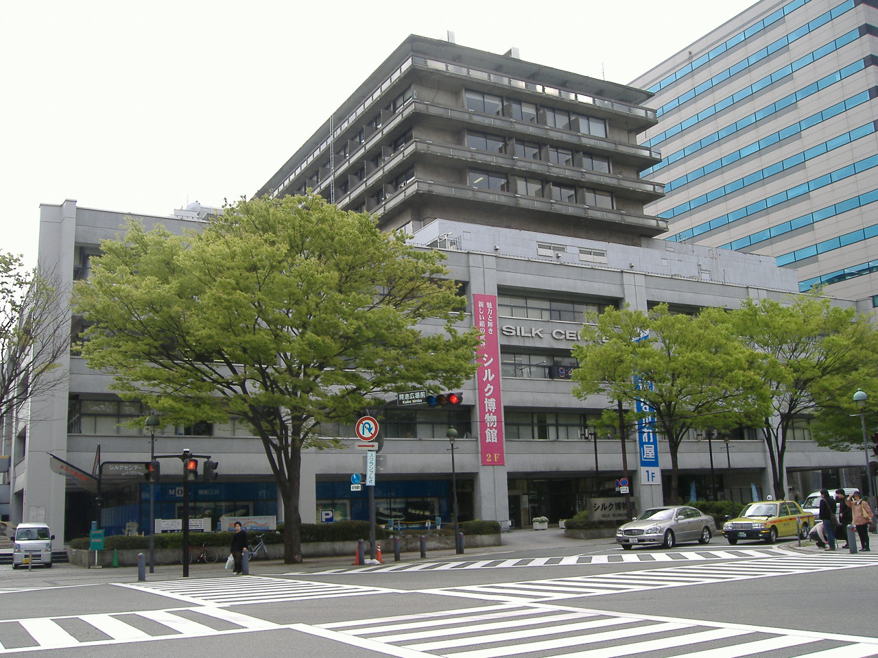 SilkCenter (Yokohama, Japan)